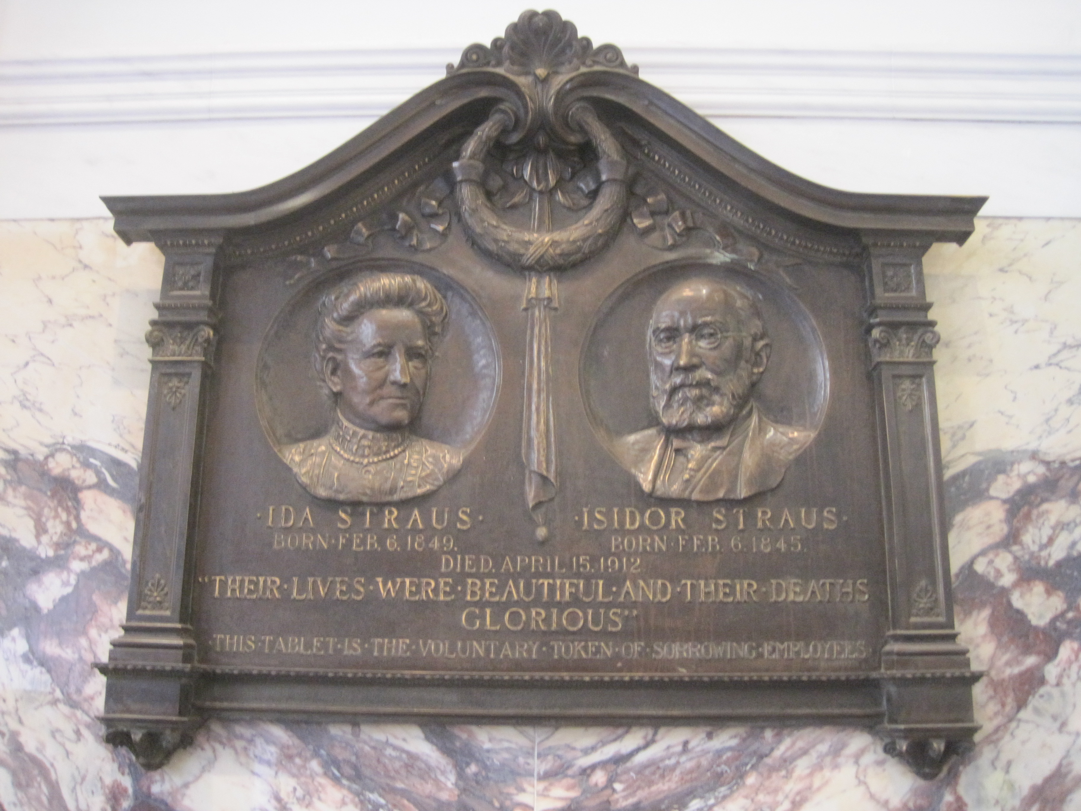 The Ida and Isidor Straus Memorial Plaque is mounted on a wall inside one of the entrances on the main floor of Macy's Department Store in Manhattan.